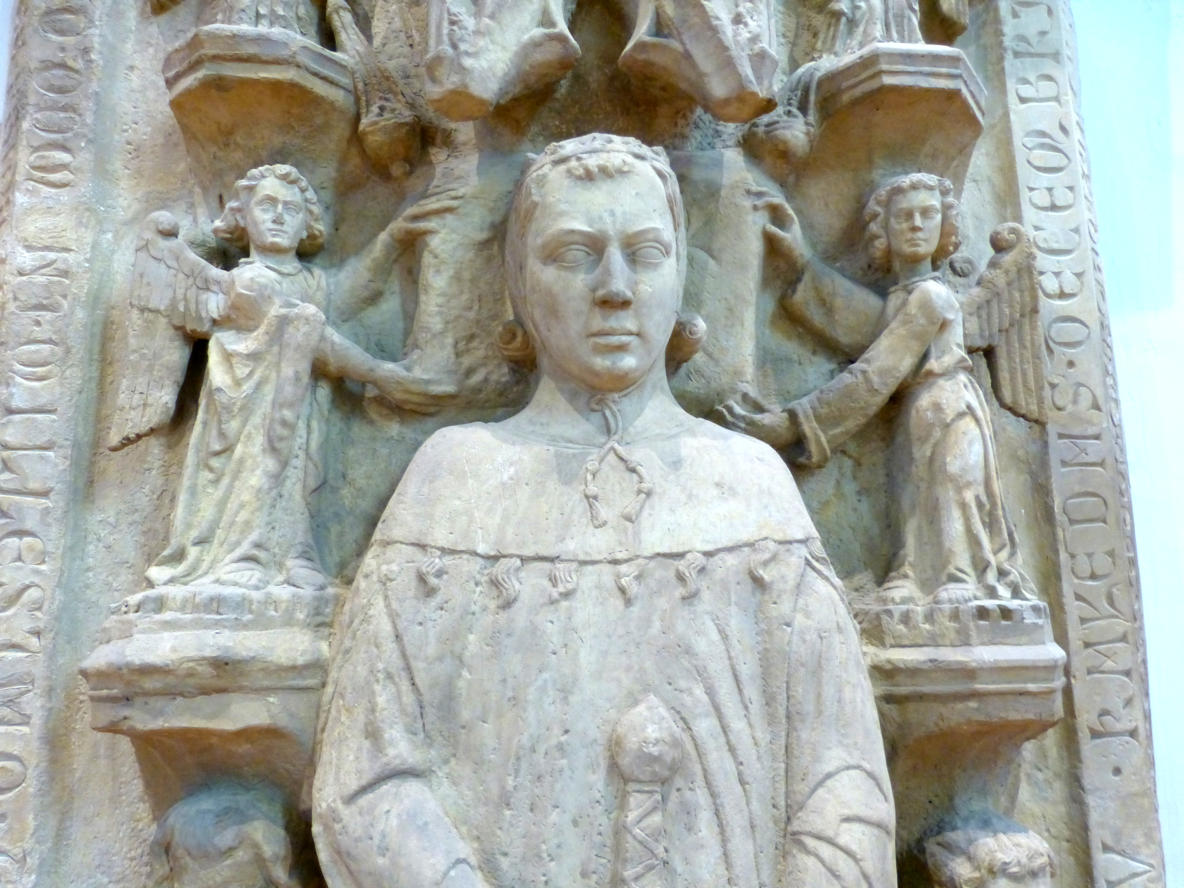 Eisenach ( Thuringia ). Saint George parish church - Grave monument ( 14th century ) for count Frederick the Brave ( + 1323 ) of Thuringia.